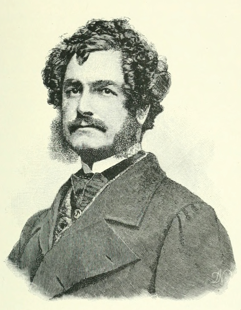 Drawing of the actor Lester Wallack